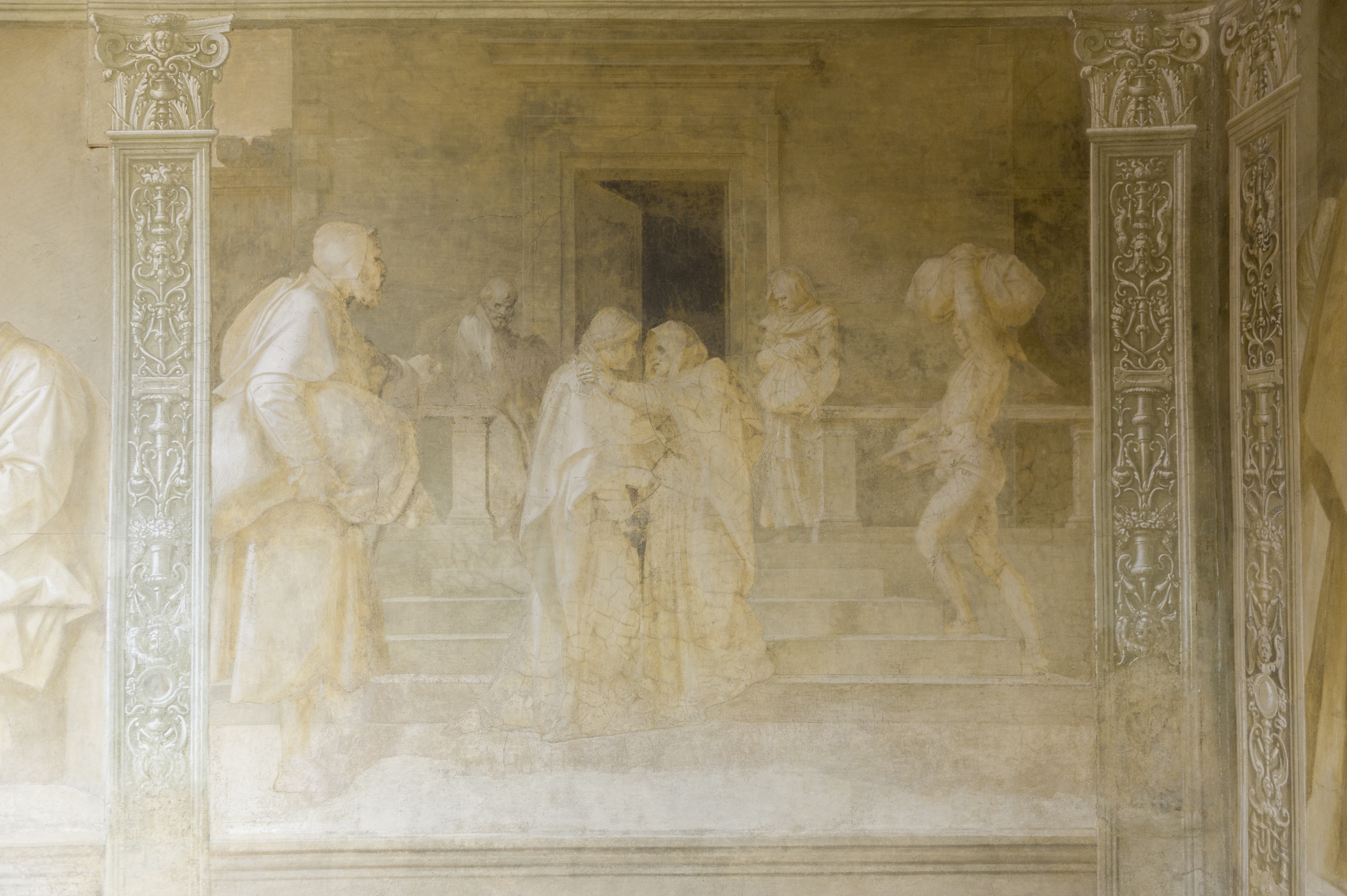 "The Visitation" by Andrea del Sarto